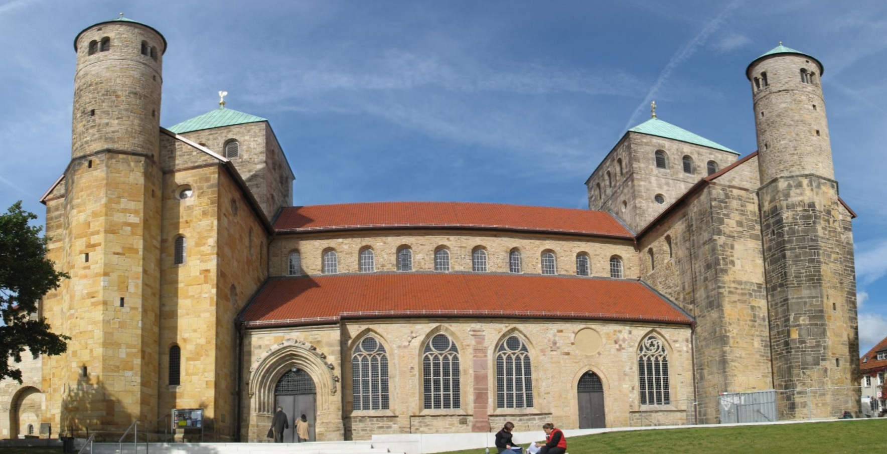 Church of St. Michael in Hildesheim